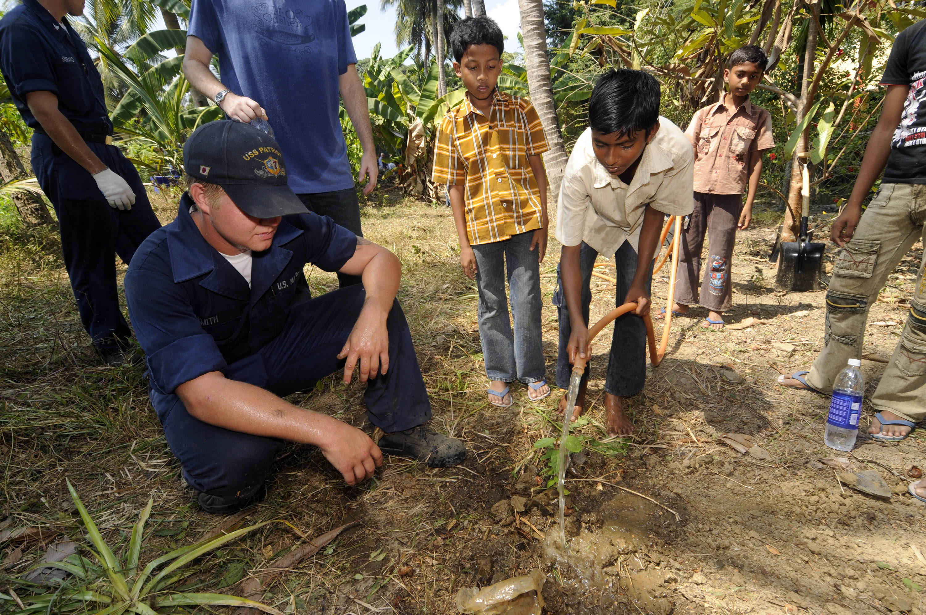 PORT BLAIR, India (March 24, 2010) Mineman Seaman Derek Smith helps a boy from the Ramakrishna mission, an orphanage in Port Blair, plant a tree. Smith was one of 16 Sailors assigned to the mine countermeasures ship USS Patriot (MCM 7) who cleared ground to plant a garden of pomegranate, guava and lemon trees at the mission. Patriot is the first U.S. Navy warship to visit Port Blair and will be conducting military training with the Indian navy. (U.S. Navy photo by Mass Communication Specialist 1st Class Richard Doolin/Released)